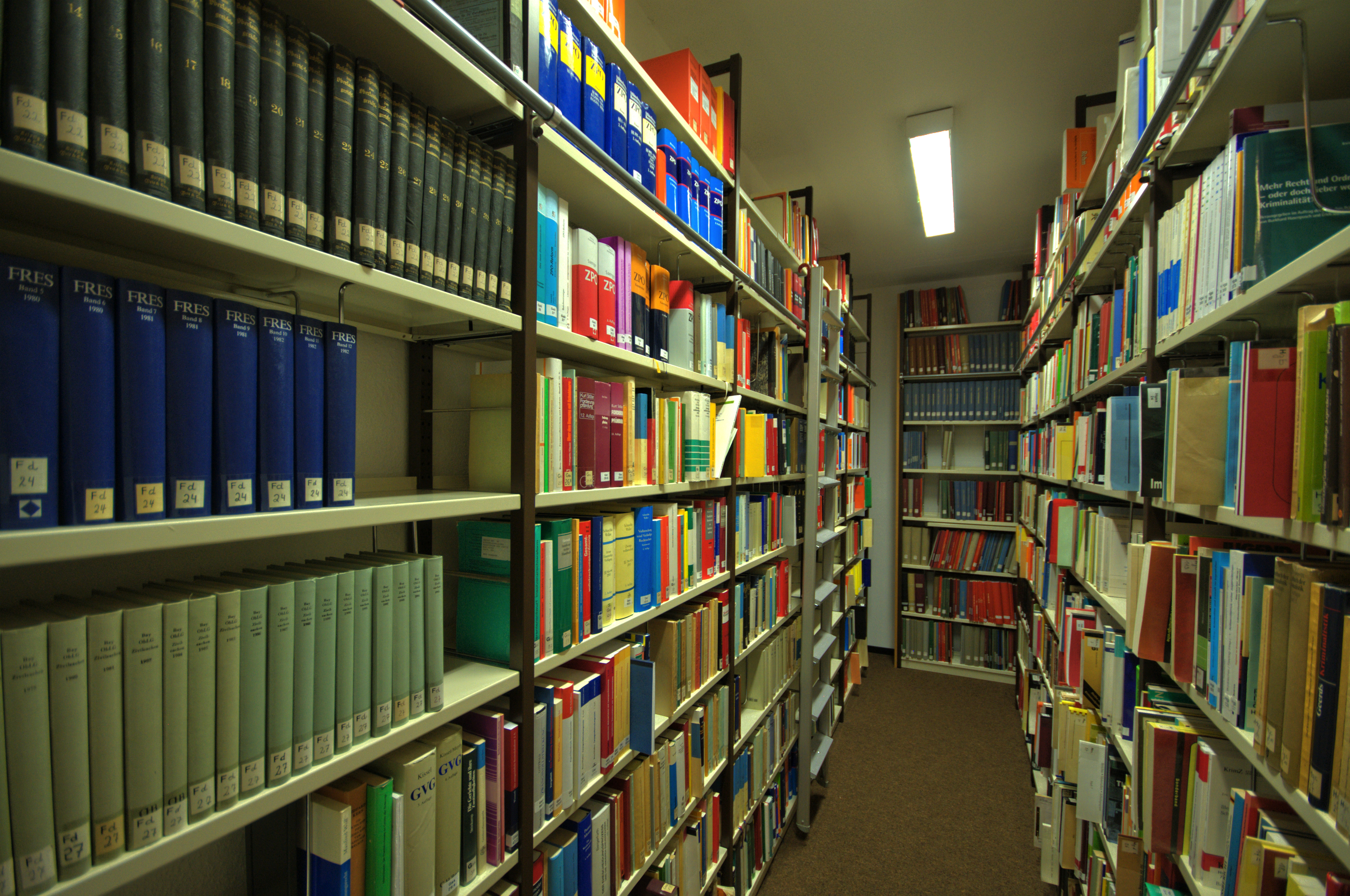 Wikipedia im Landtag – Niedersachsen 17. bis 18. April 2013 in Hannover Fragen zur Nachnutzung Wenn Sie Fragen zur Nachnutzung dieses Bildes haben, können Sie sich jederzeit gern an wenden Personality rights warning This work depicts one or more identifiable persons. The use of depictions of living or deceased persons may be restricted by laws regarding personality rights. The extent of these restrictions depends on jurisdiction. Personality rights restrictions apply independently of copyright. Before using this content, please ensure that the intended use does not infringe any personality rights under applicable laws. You are solely responsible for ensuring that you do not infringe someone else's personality rights. See our general disclaimer.